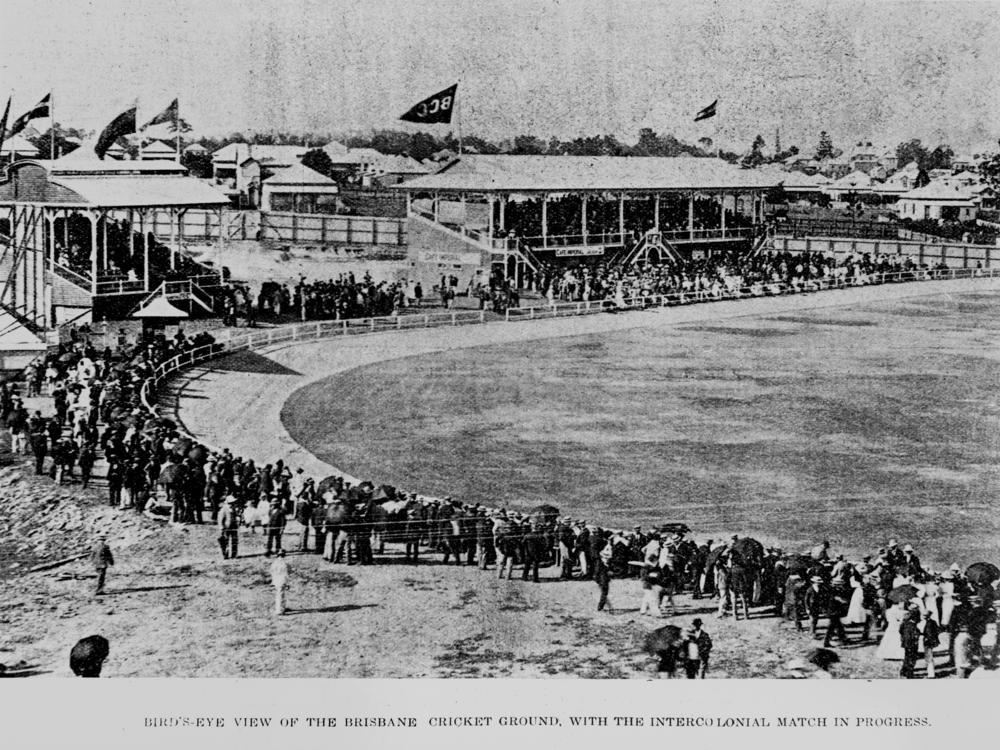 Woolloongabba Cricket Ground, 1899.